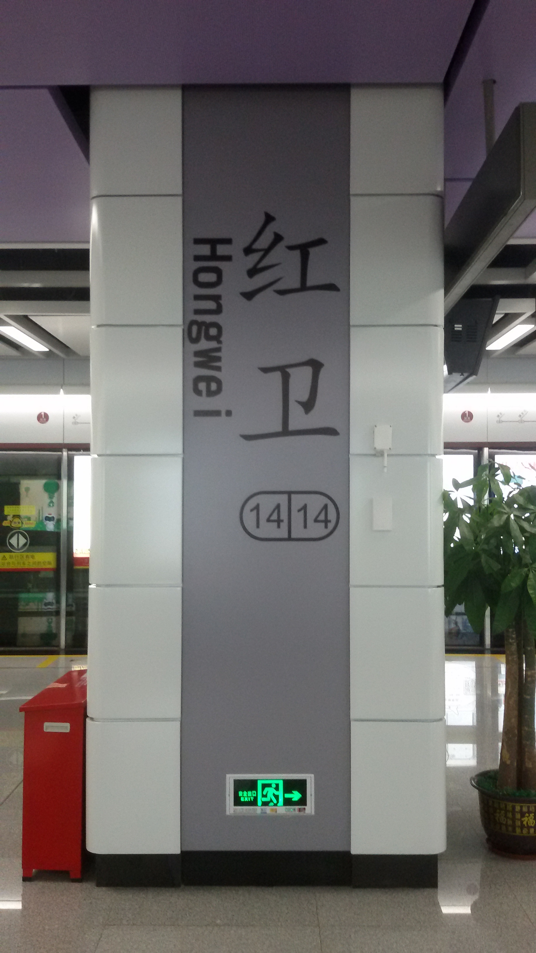 WORD on PILLAR for Hongwei Station in Guangzhou Metro